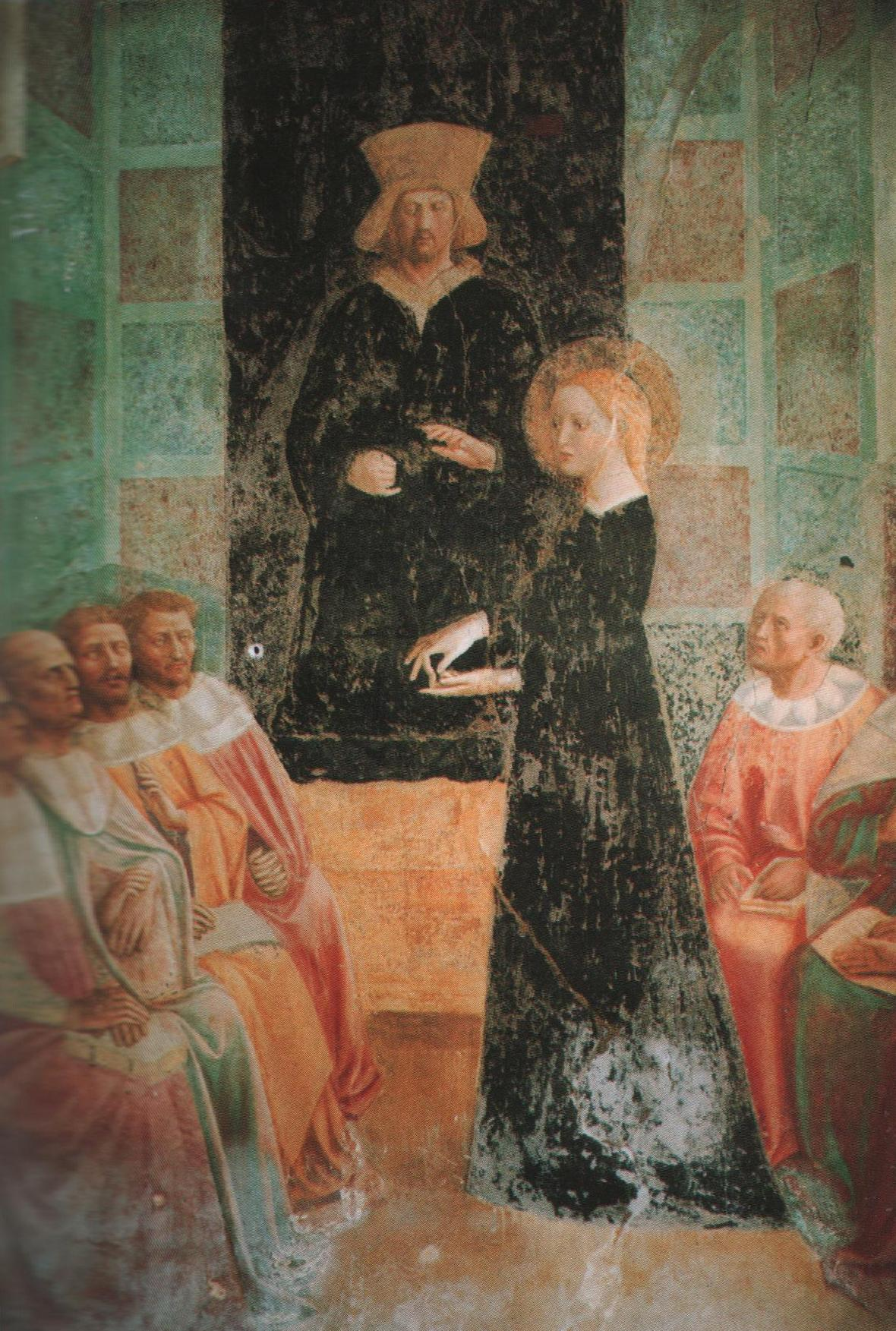 St Catherine before masters of philosophy